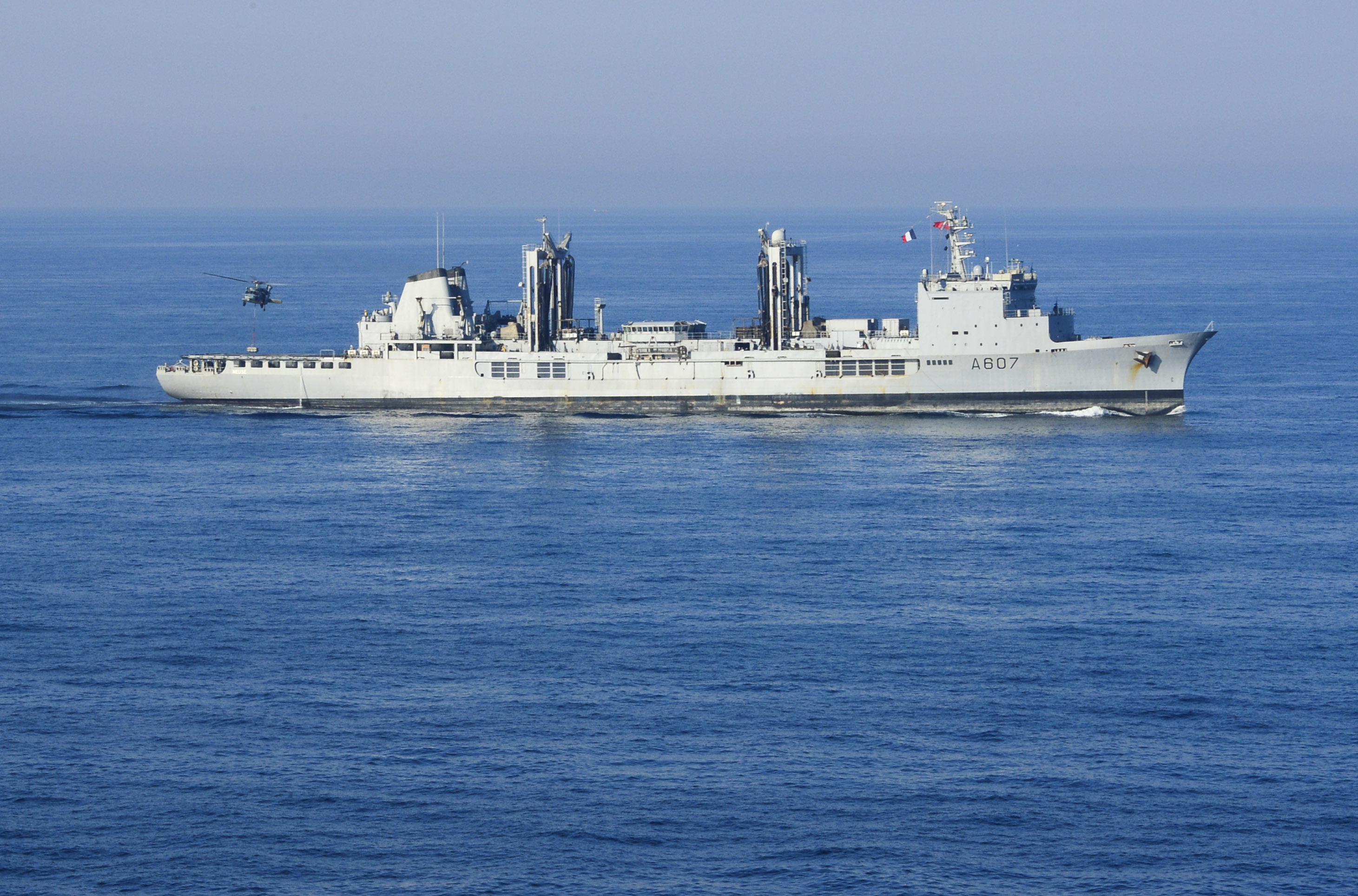 150302-N-GW139-039 ARABIAN GULF The French Navy Durance-class Multi-product replenishment oiler Meuse transits the Arabian Gulf during a vertical replenishment with aircraft carrier USS Carl Vinson. Carl Vinson is deployed in the U.S. 5th Fleet area of operations supporting Operation Inherent Resolve, strike operations in Iraq and Syria as directed, maritime security operations, and theater security cooperation efforts in the region.